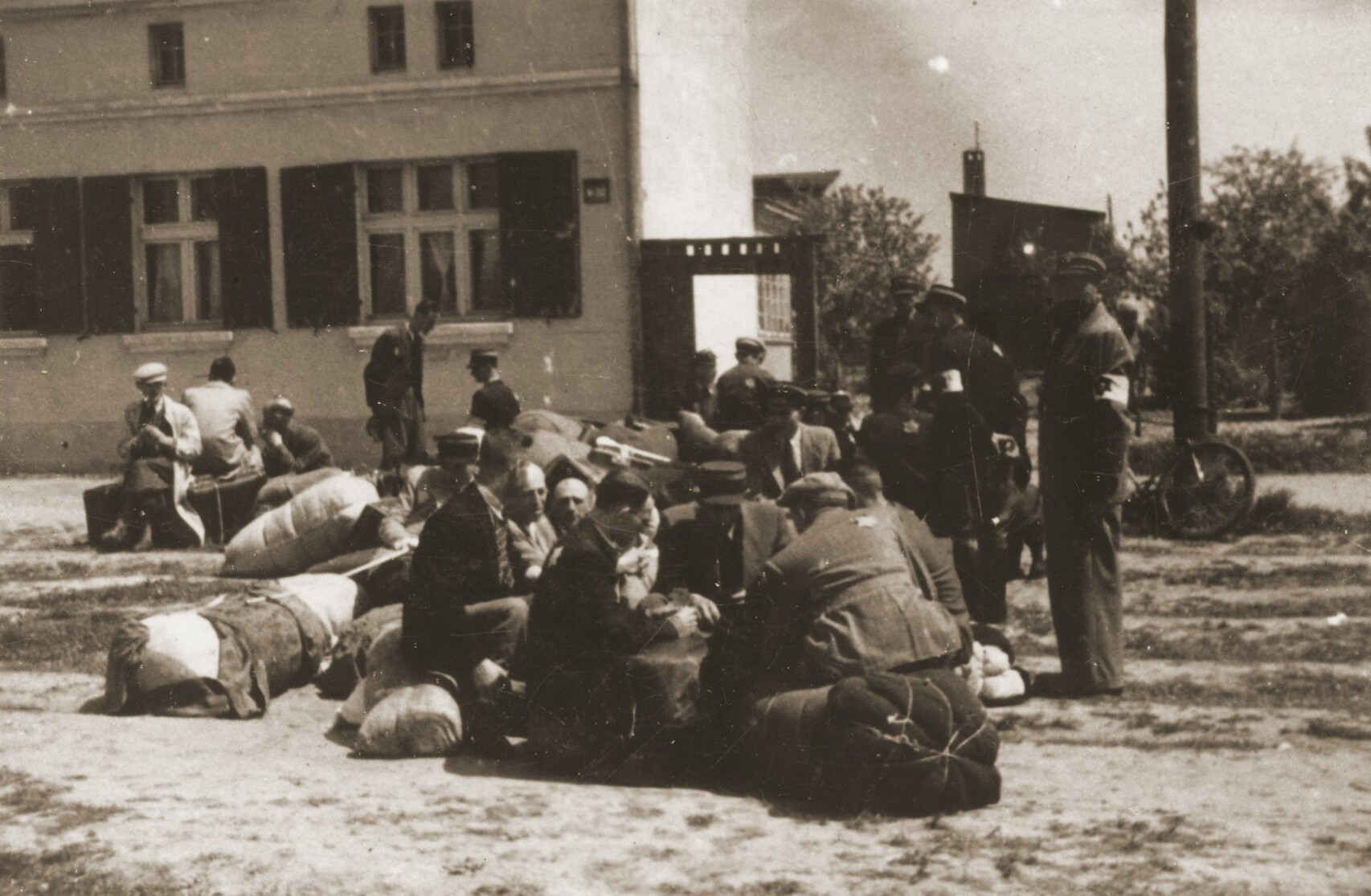 In May 1942, 10,000 Jews who had been deported to the Łódź Ghetto from Germany, Austria, and Prague were deported to Chełmno extermination camp.